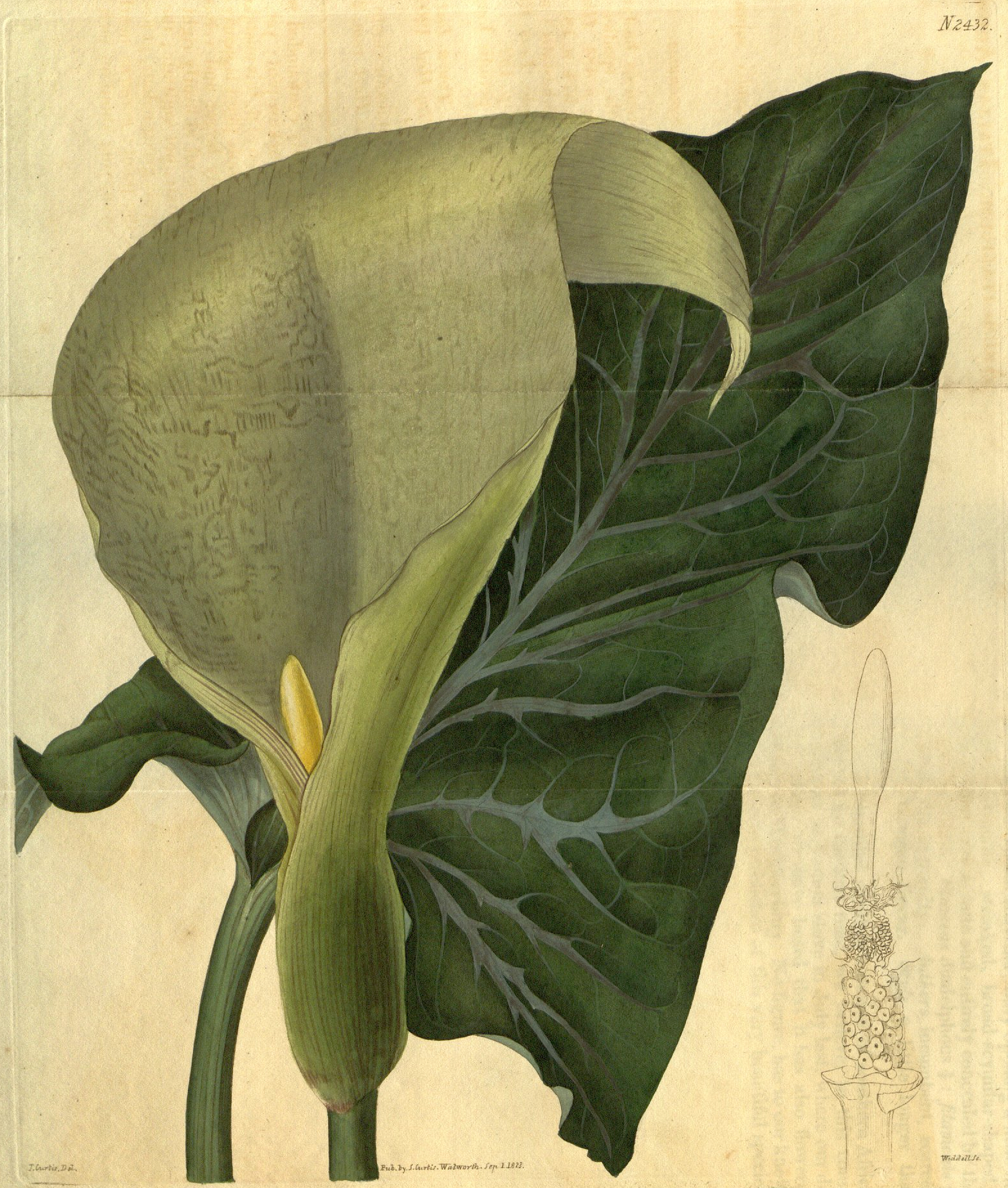 Arum italicum botanical drawing